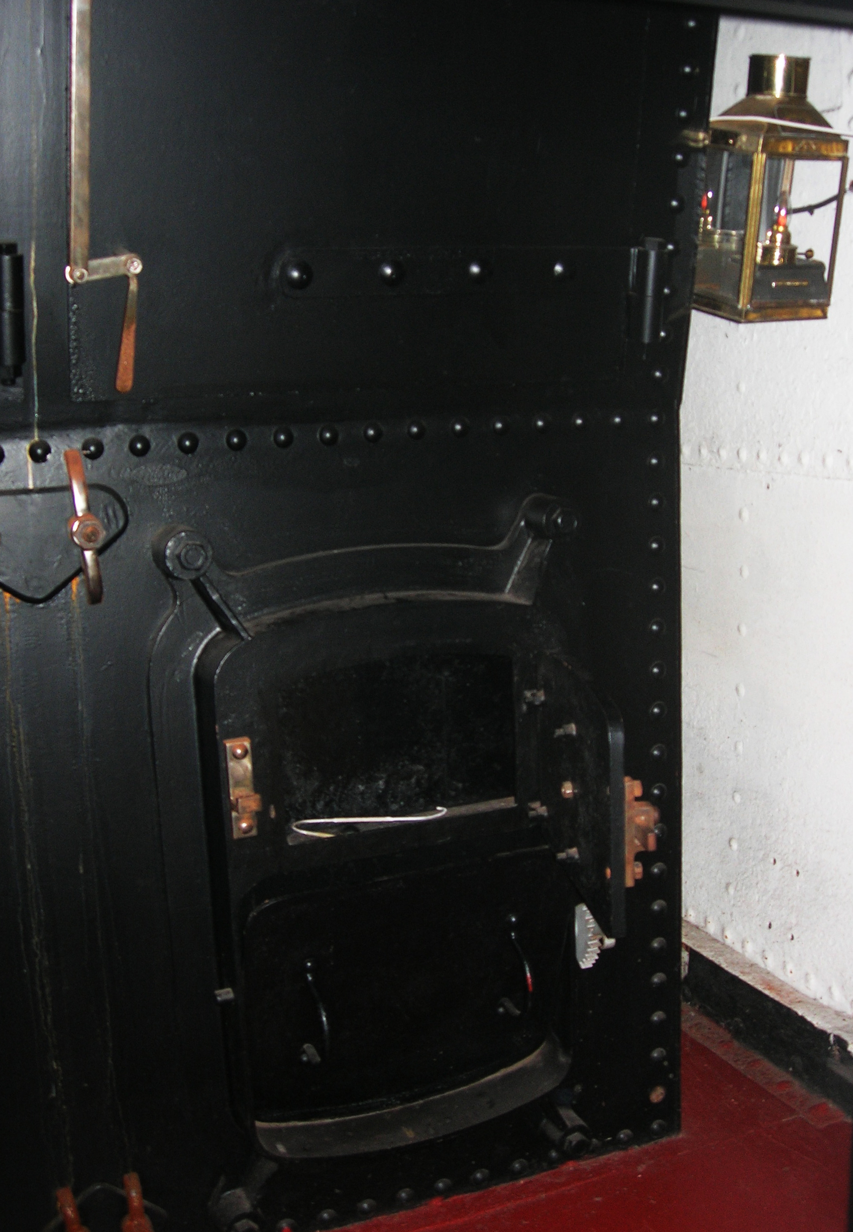 Description =HMS Warrior chaudière Source =Photo taken by Remi Jouan Date =Mai 2006